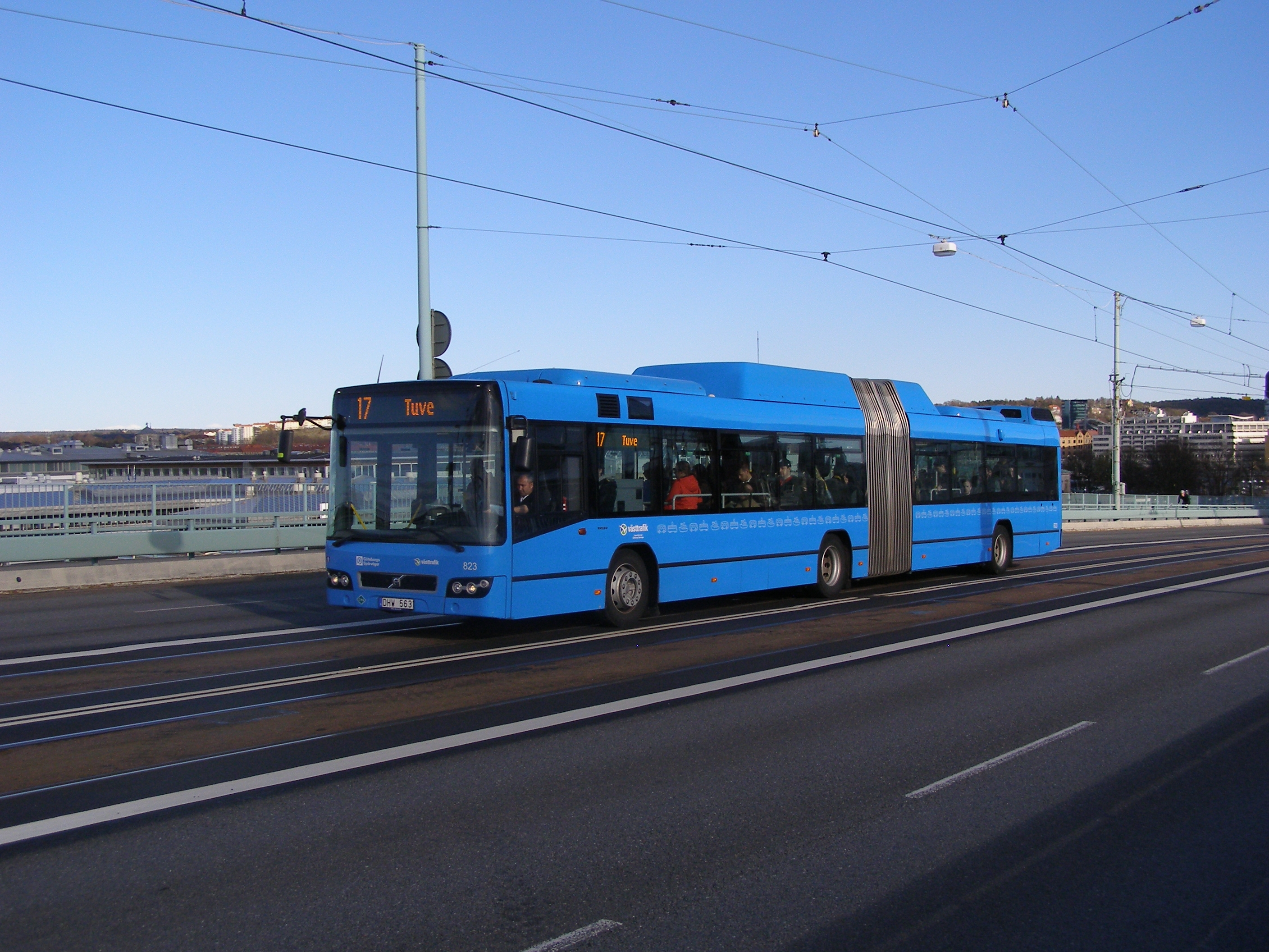 Gothenburg - Göta älvbron - Volvo 7700 bus #823 on line No. 17